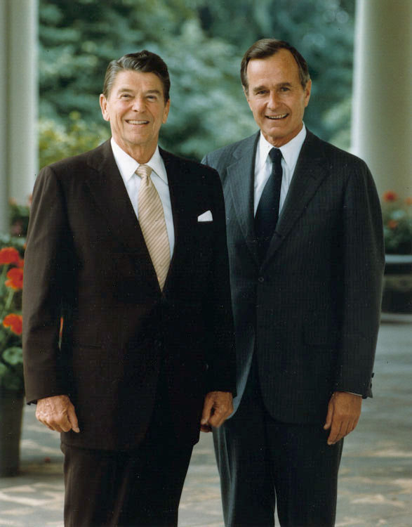 "C3033-2, Official portrait of President Reagan and Vice President Bush. 7/16/81."